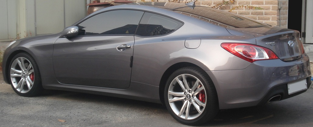 Hyundai Genesis Coupe